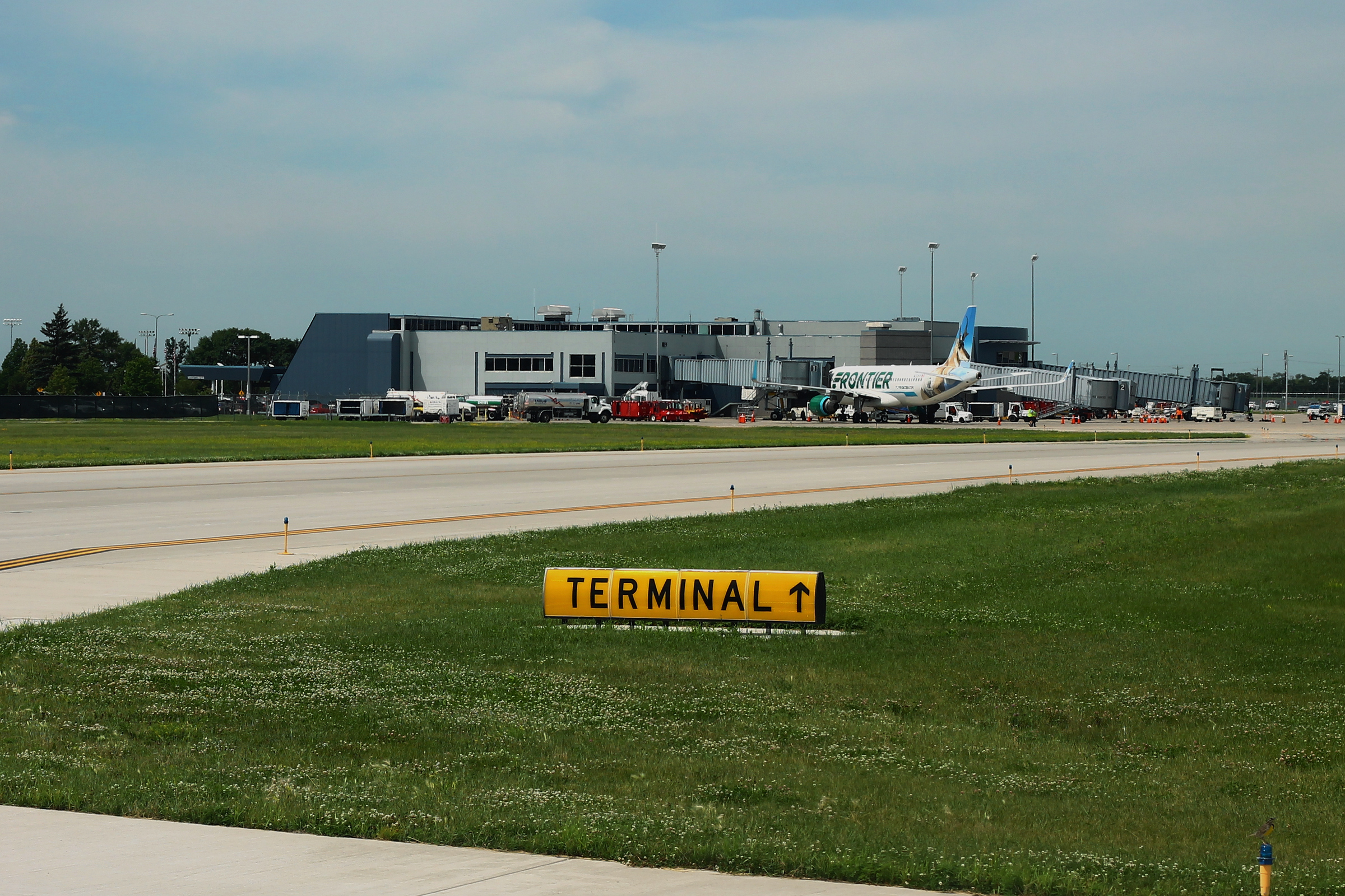 Fargo International Airport Terminal